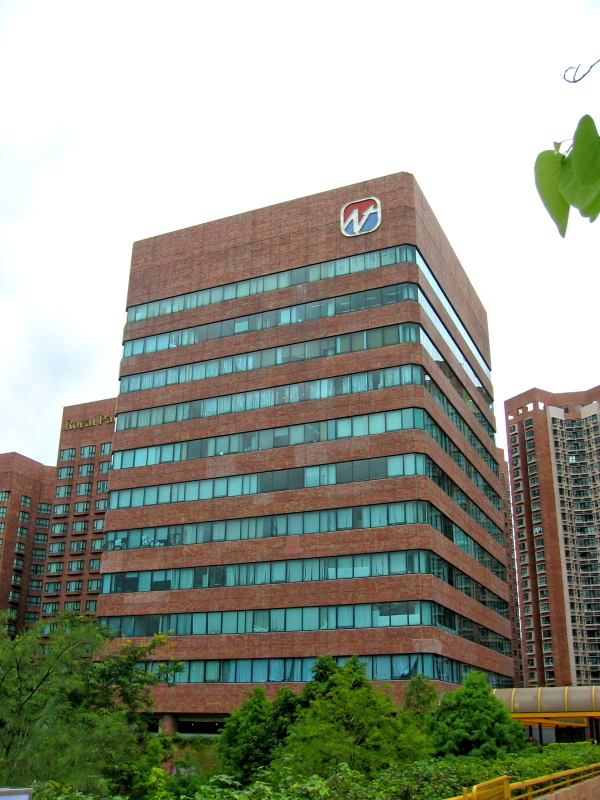 New Town Tower